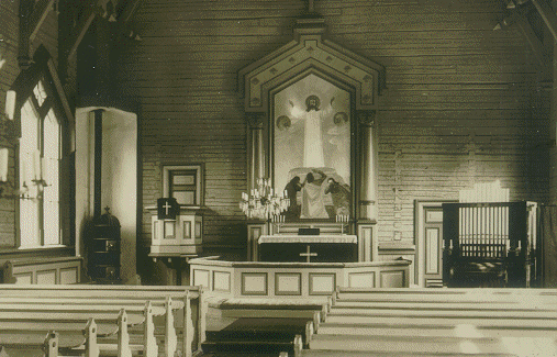 Altar of Korpiselkä lutheran church.